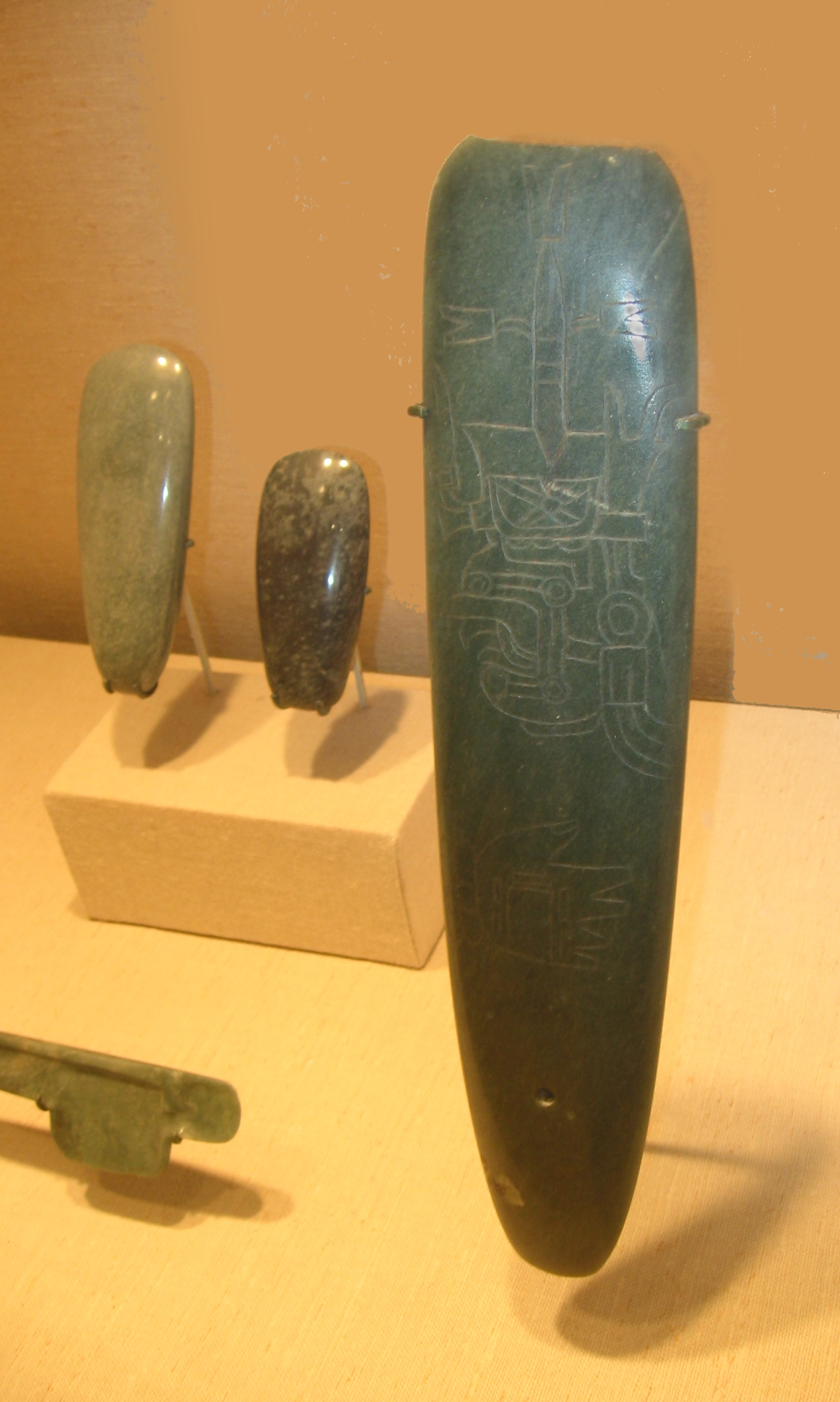 Three celts. The larger one in the front is engraved with an Olmec supernatural, while the smaller two in the rear are not engraved. An Olmec "spoon" is partially visible in the lower left. The function of these spoons is not known. Photographed by Madman.